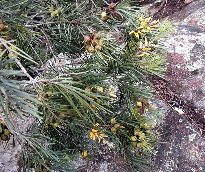 Persoonia linearis, habit - flowers and fruit. Nannygoat Hill (Earlwood), Sydney